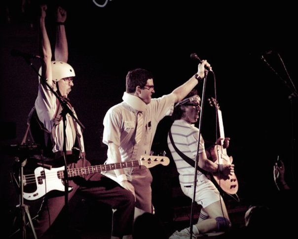 TX Spazmatics at Cedar Street in Austin